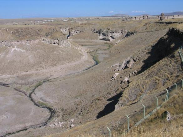 The security fence surrounding Ani, Turkey. Armenia is on the left.